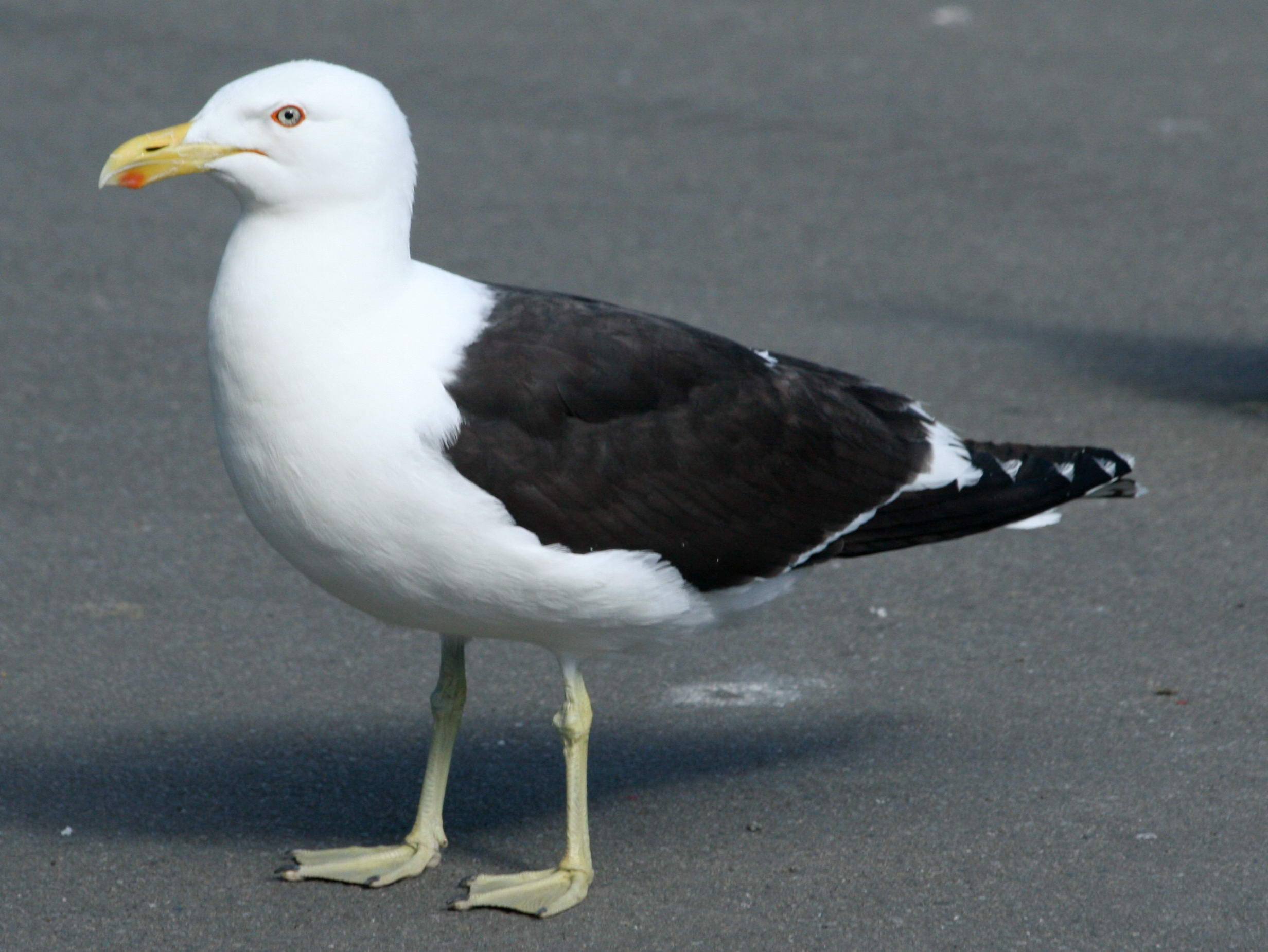 Kelp Gull or Southern Black-backed Gull (Larus dominicanus) - New Zealand